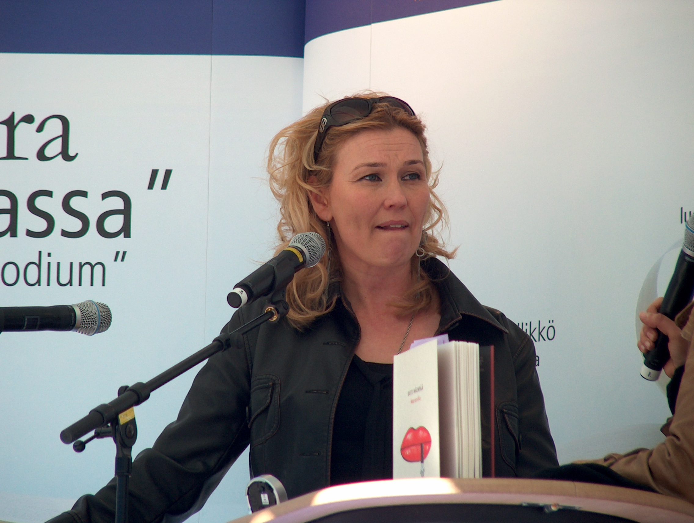 Actress Outi Mäenpää on World Book Day 2008 in Helsinki